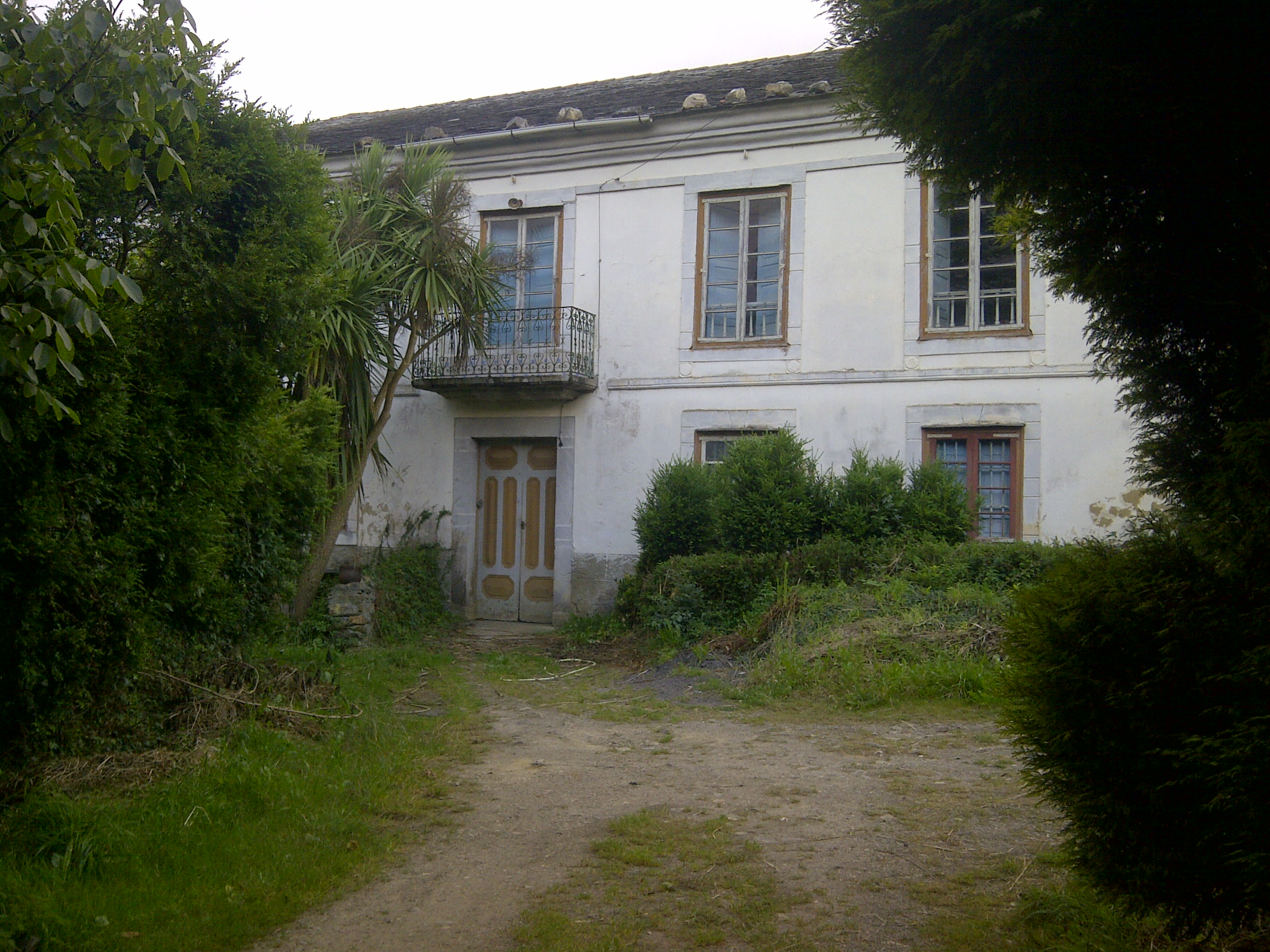 Old manor house in Arancedo